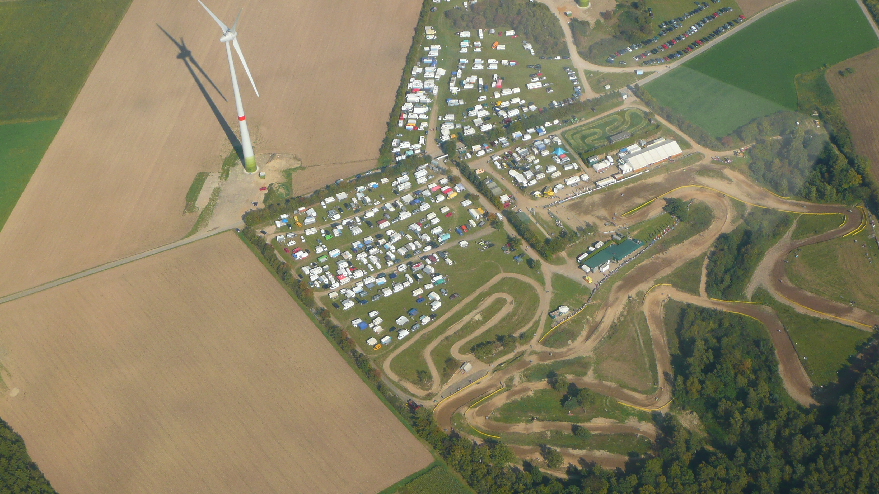 aerial view of motocross track Kleinhau (Germany)